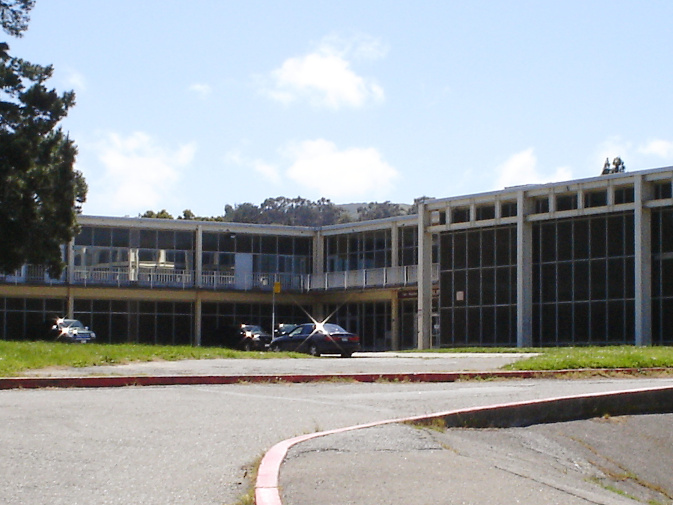 The former Crestmoor High School building, *Author:Robert E. Nylund Source:Personal photos